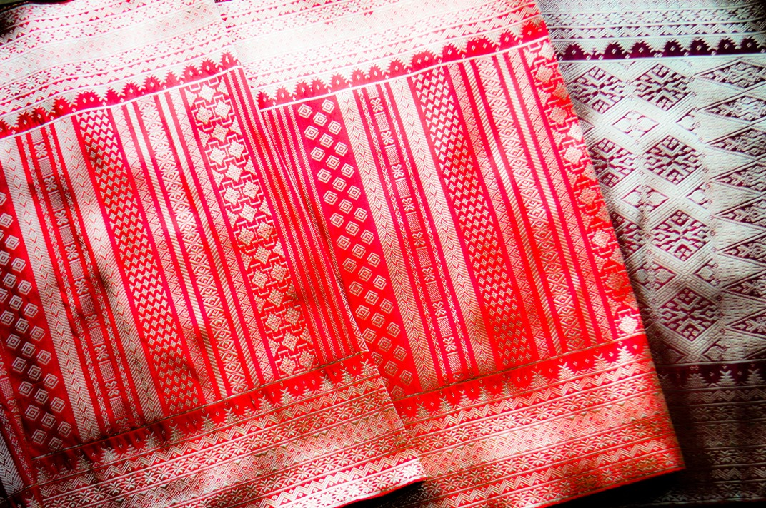 Tenunan songket khas Sumatera Barat